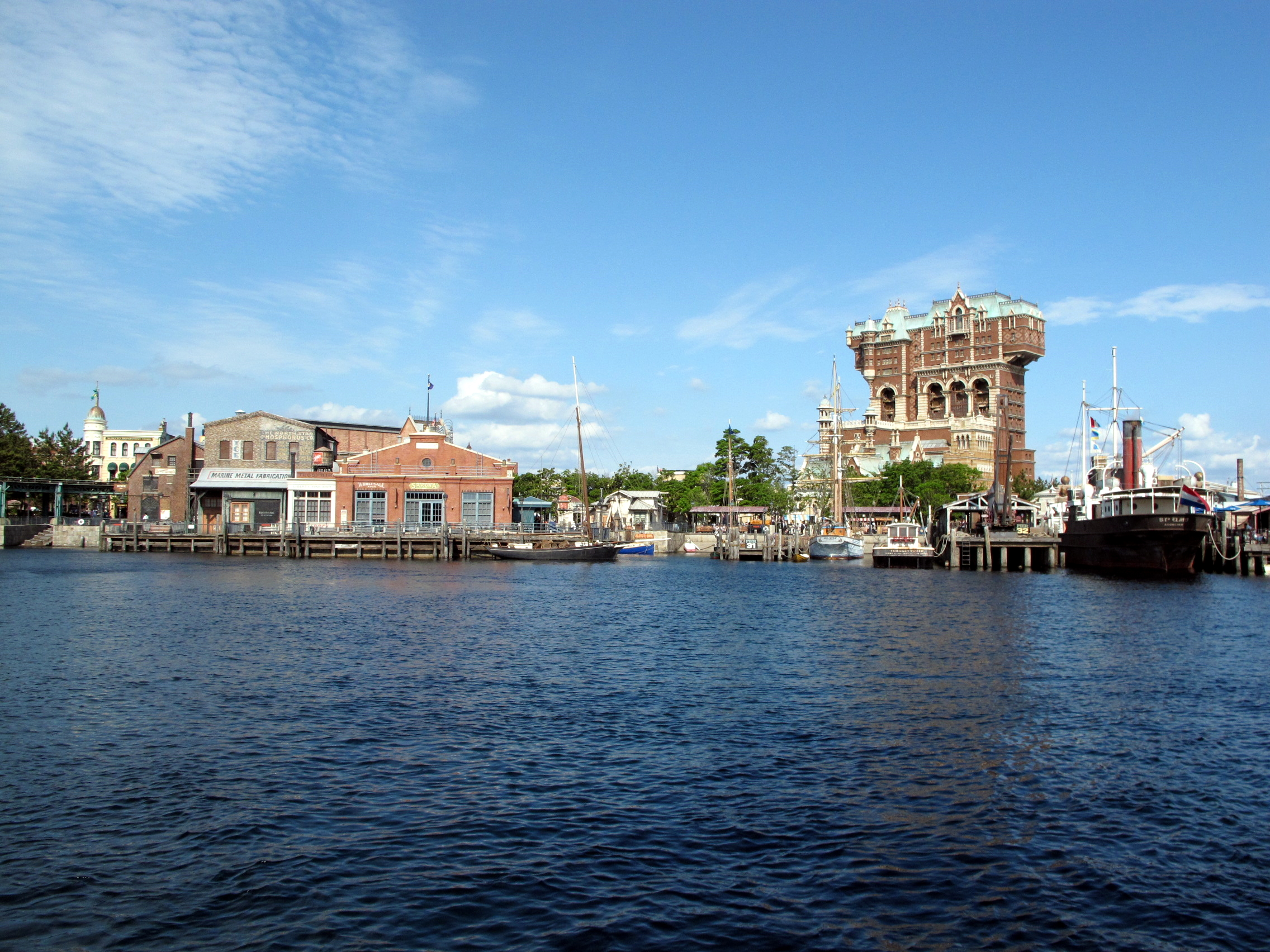 Tokyo DisneySea American Waterfront View